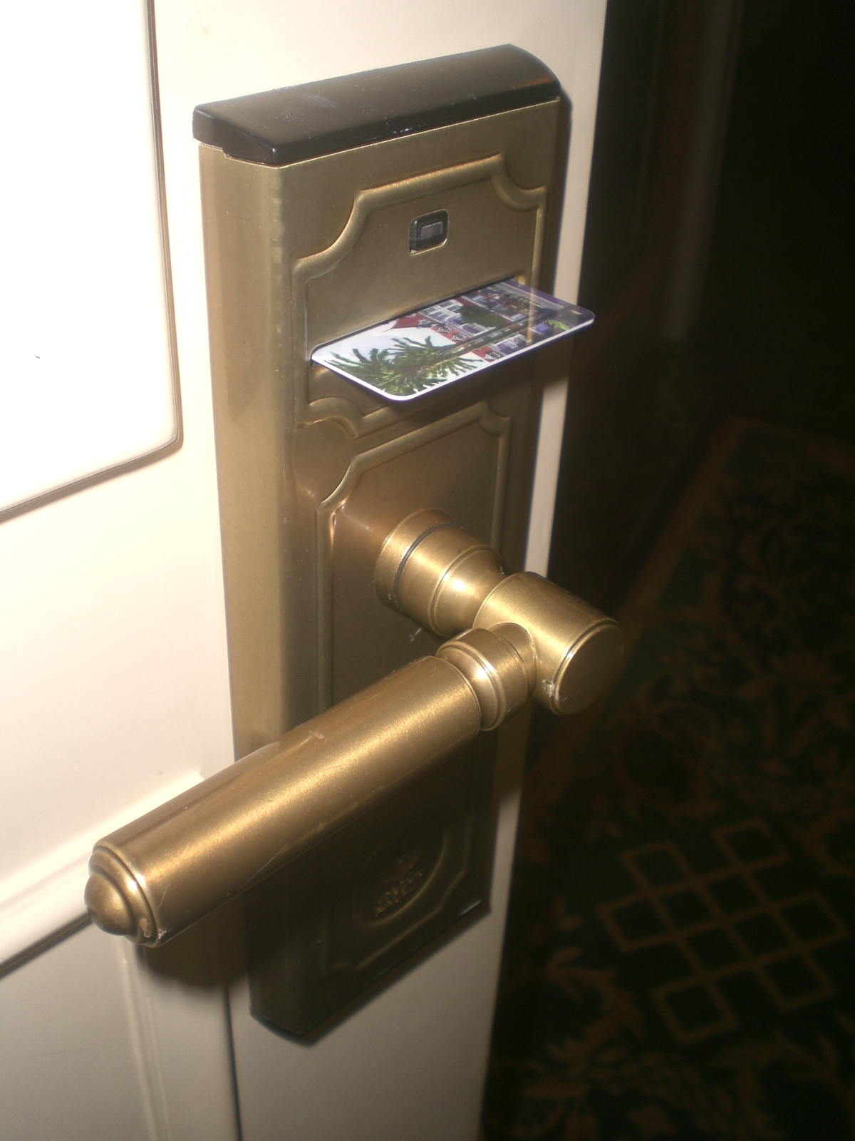 香港迪士尼樂園酒店zh:酒店客房 讀卡機 電子鎖 聰明卡